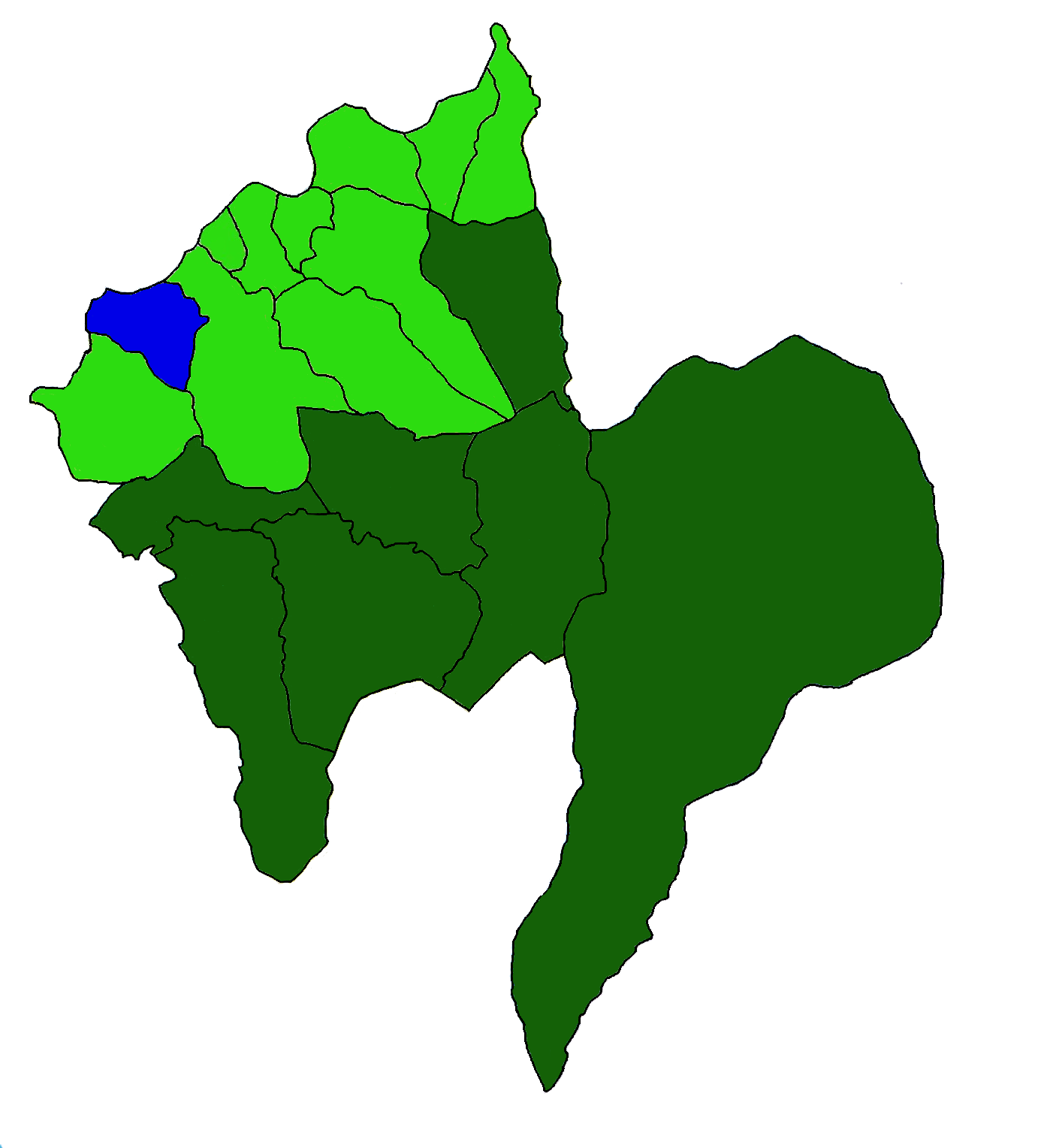 Map of Alvaredo in Melgaço, Portugal